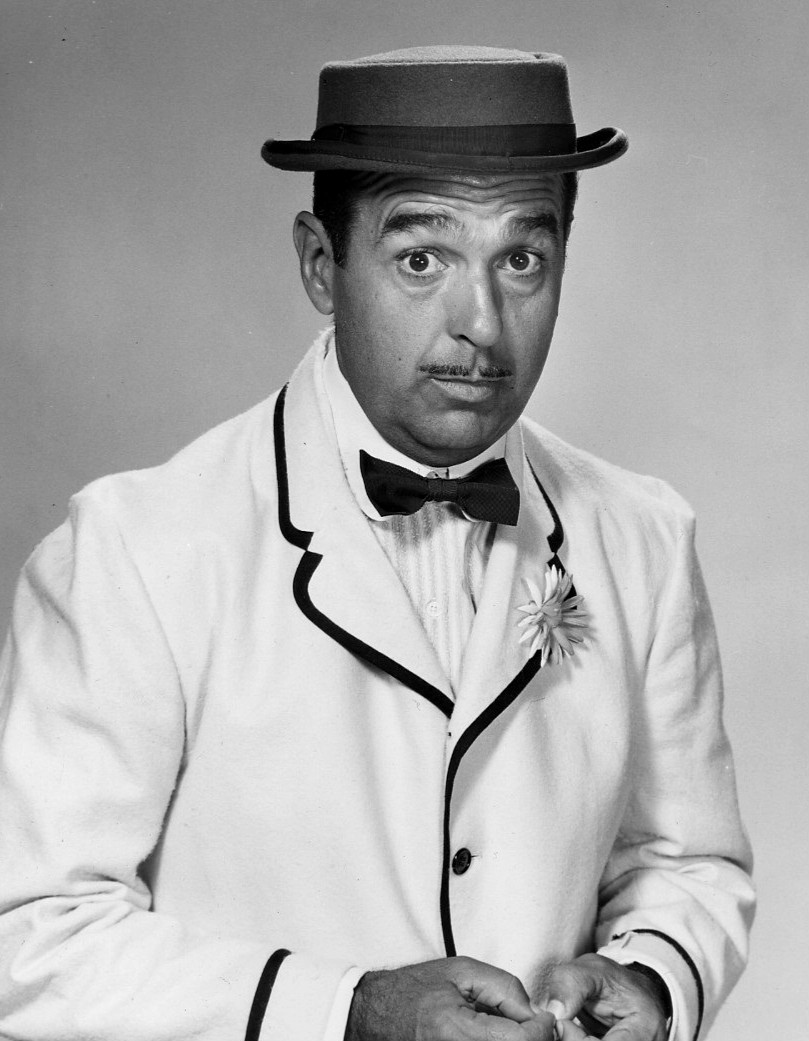 Photo of Tennessee Ernie Ford.